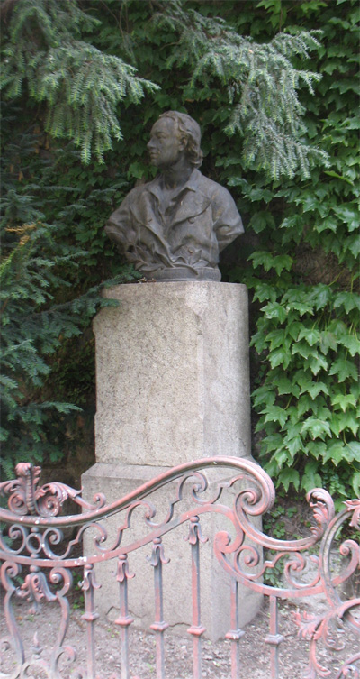 statue of Donner